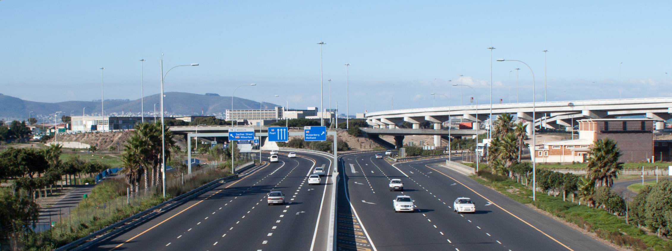 M5 Interchange cape town